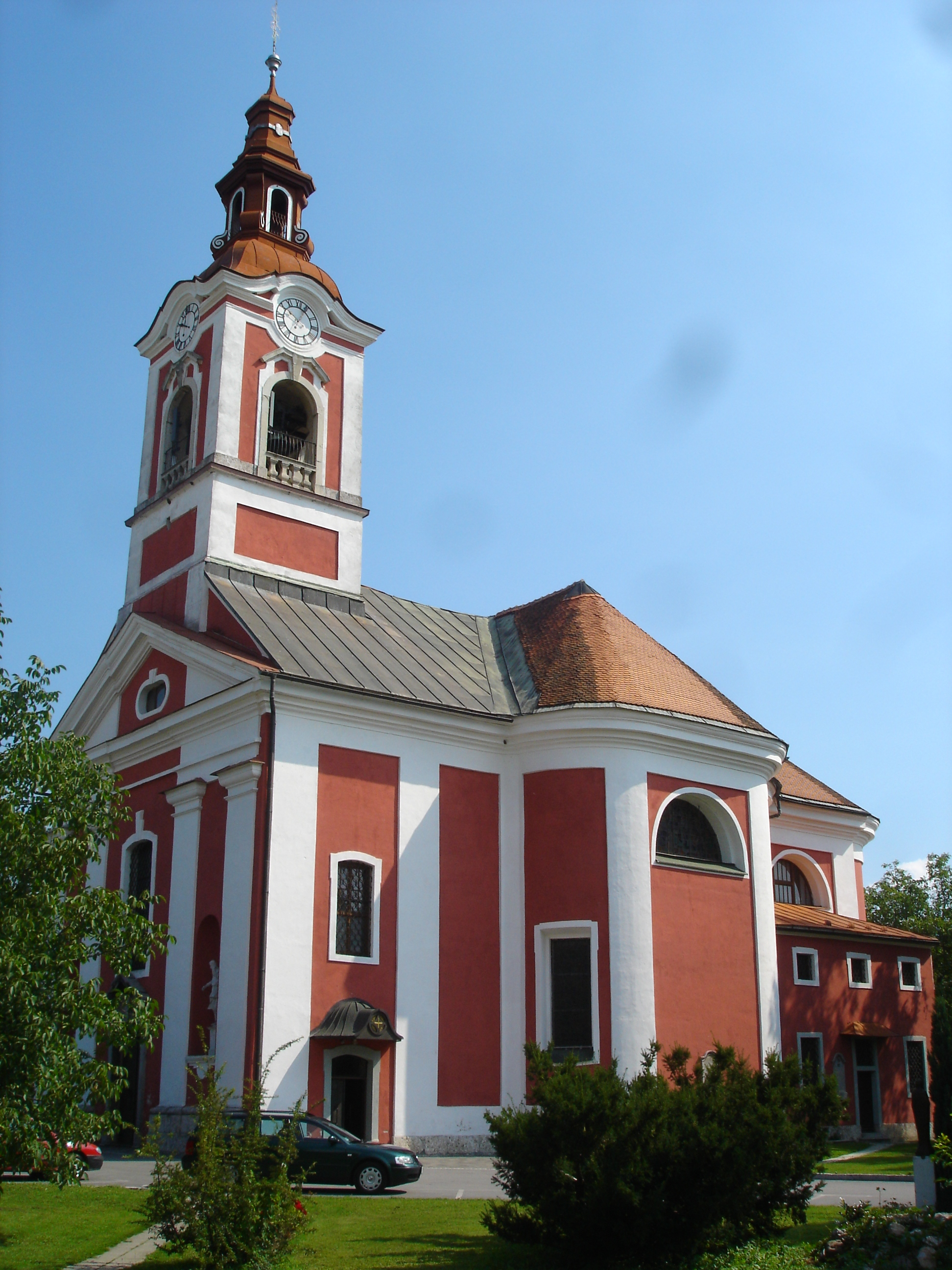 St. Peter's Parish Church (Naklo)